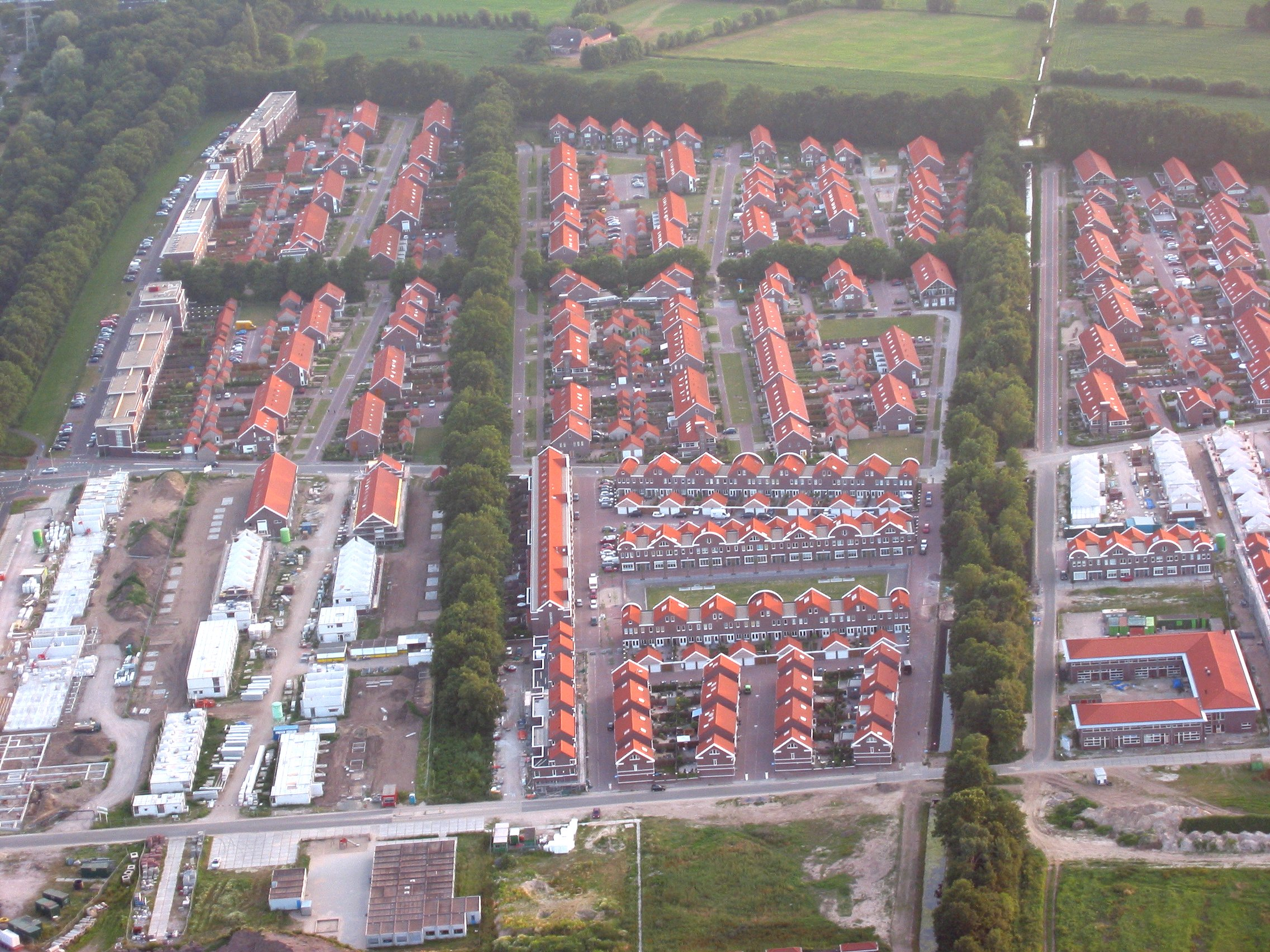 Picture taken by myself: Kernhem, Ede, the Netherlands